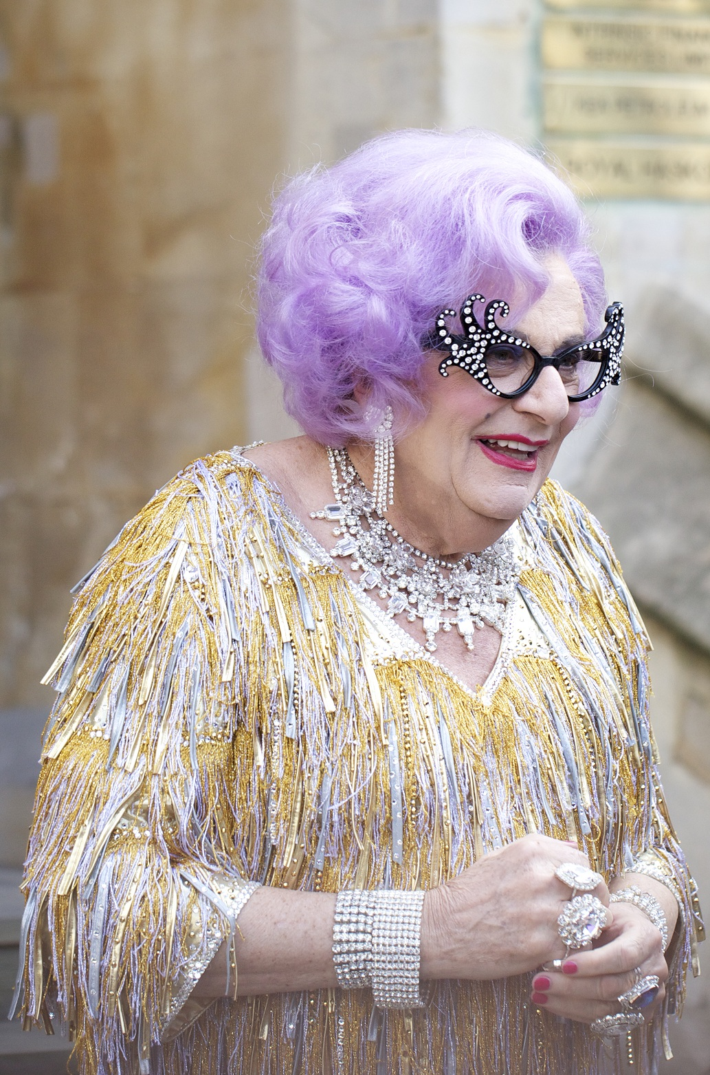 Dame Edna at the Royal Wedding